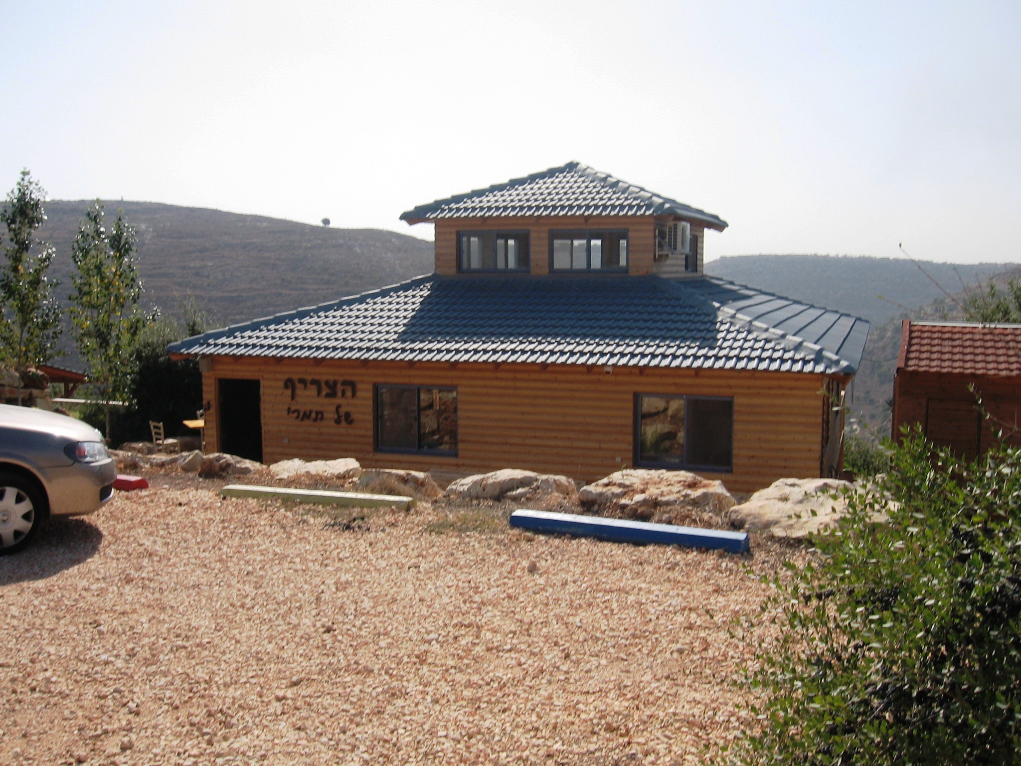 Home_in_the_settlement.